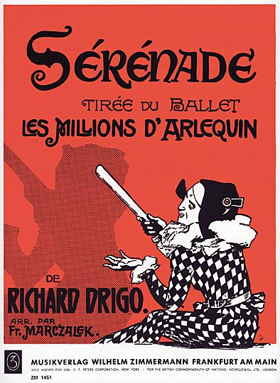 Frontispiece for the piano reduction of the "Serenade" taken from the composer Riccardo Drigo's (1846-1930) score for the ballet "Les Millions d'Arlequin" ("Harlequin's Millions") by the choreographer Marius Petipa (1818-1910).